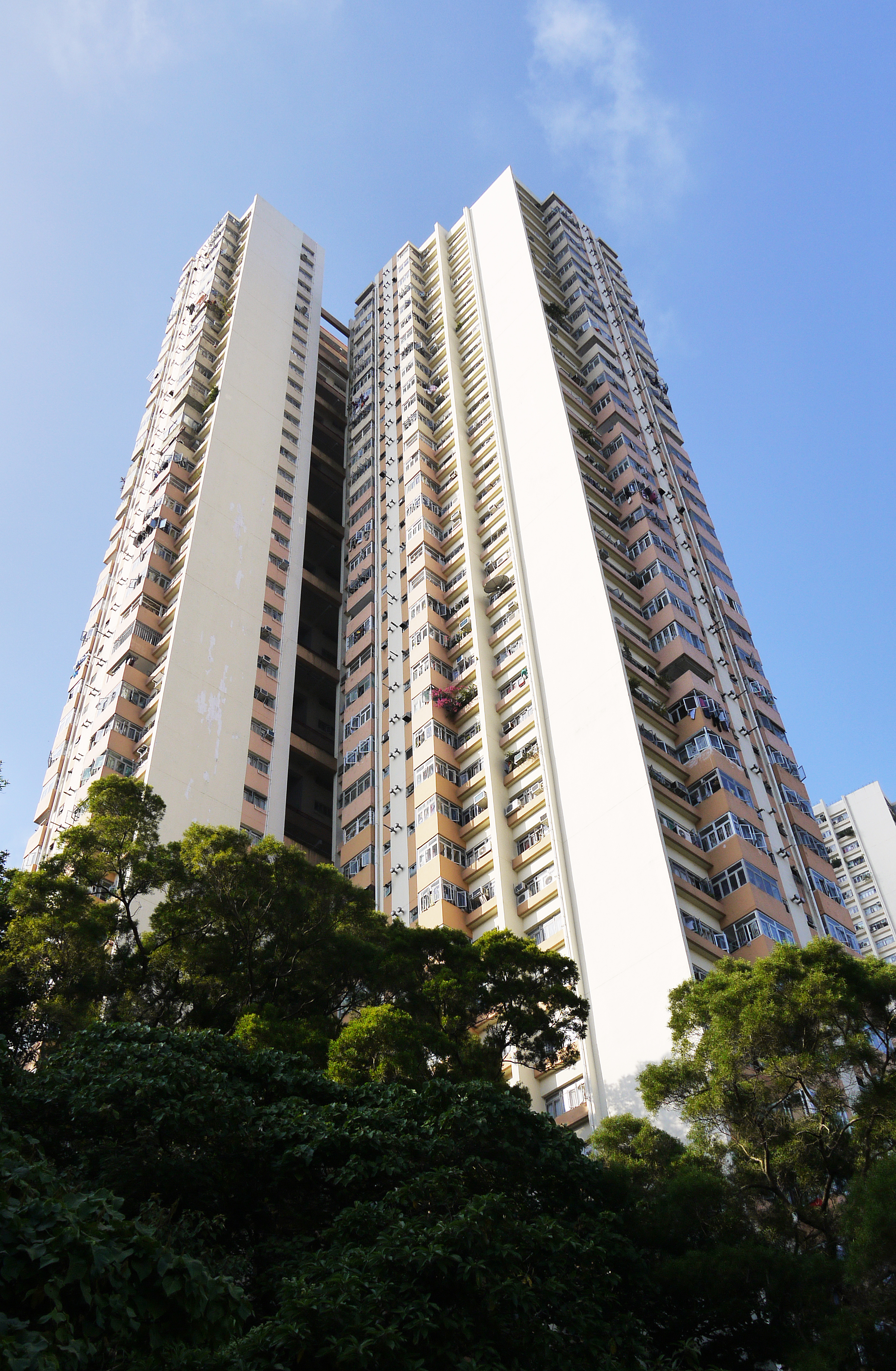 Hing Man Facade 2